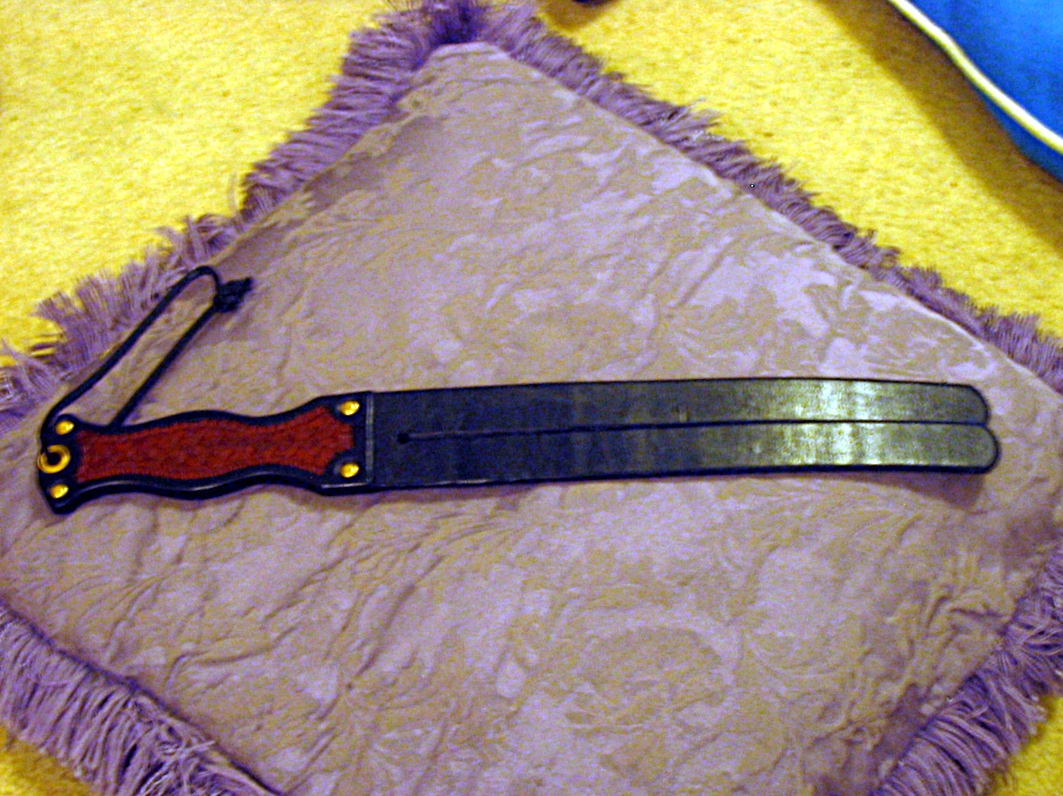 A two-tailed leather tawse sitting on a purple pillow; a small leather strap attached to the handle allows the tawse to be hung up when not in use. The tawse was originally used primarily for educational corporal punishment; in modern times its use now survives mainly amongst those who practice BDSM. This is an example of a tawse used for BDSM purposes, belonging to a friend of the uploader and photographer and taken with his permission.